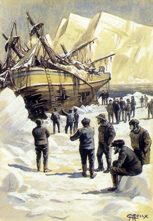 An illustration from Jules Verne's novel "The Sea Serpent: The Yarns of Jean Marie Cabidoulin" (lit. "The Stories of Jean-Marie Cabidoulin", 1901) drawn by George Roux.